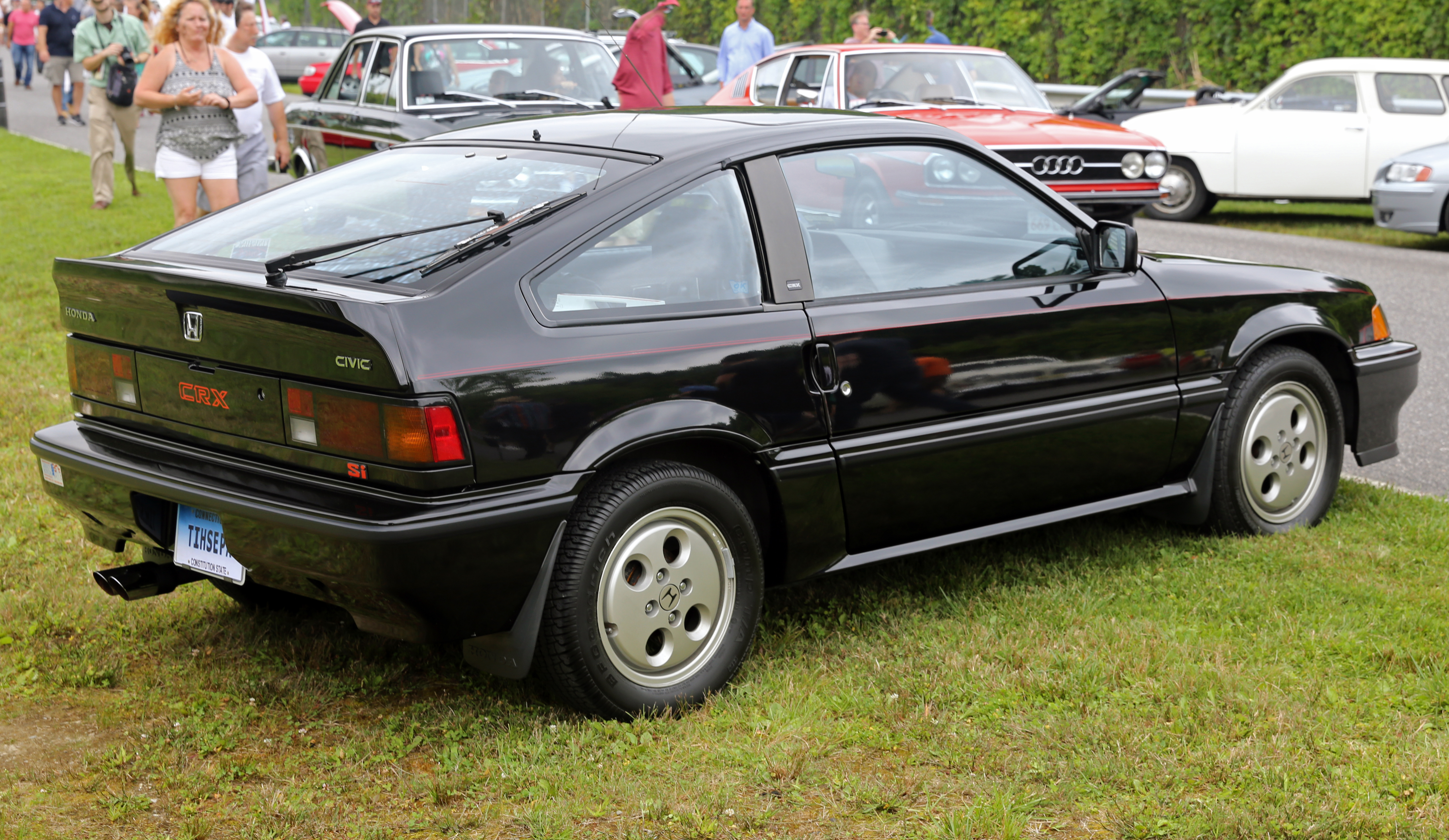 A 1987 Honda CR-X Si seen at the 2014 Lime Rock Gathering of the Marques attached to the Concours d'Élegance.